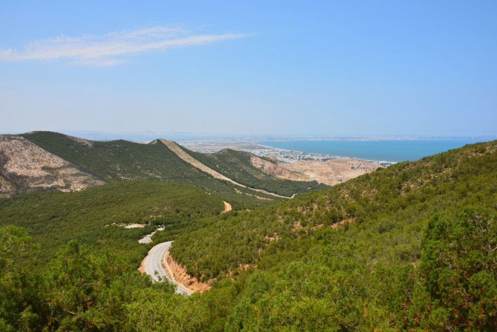 View of Boukornine National park from inside.